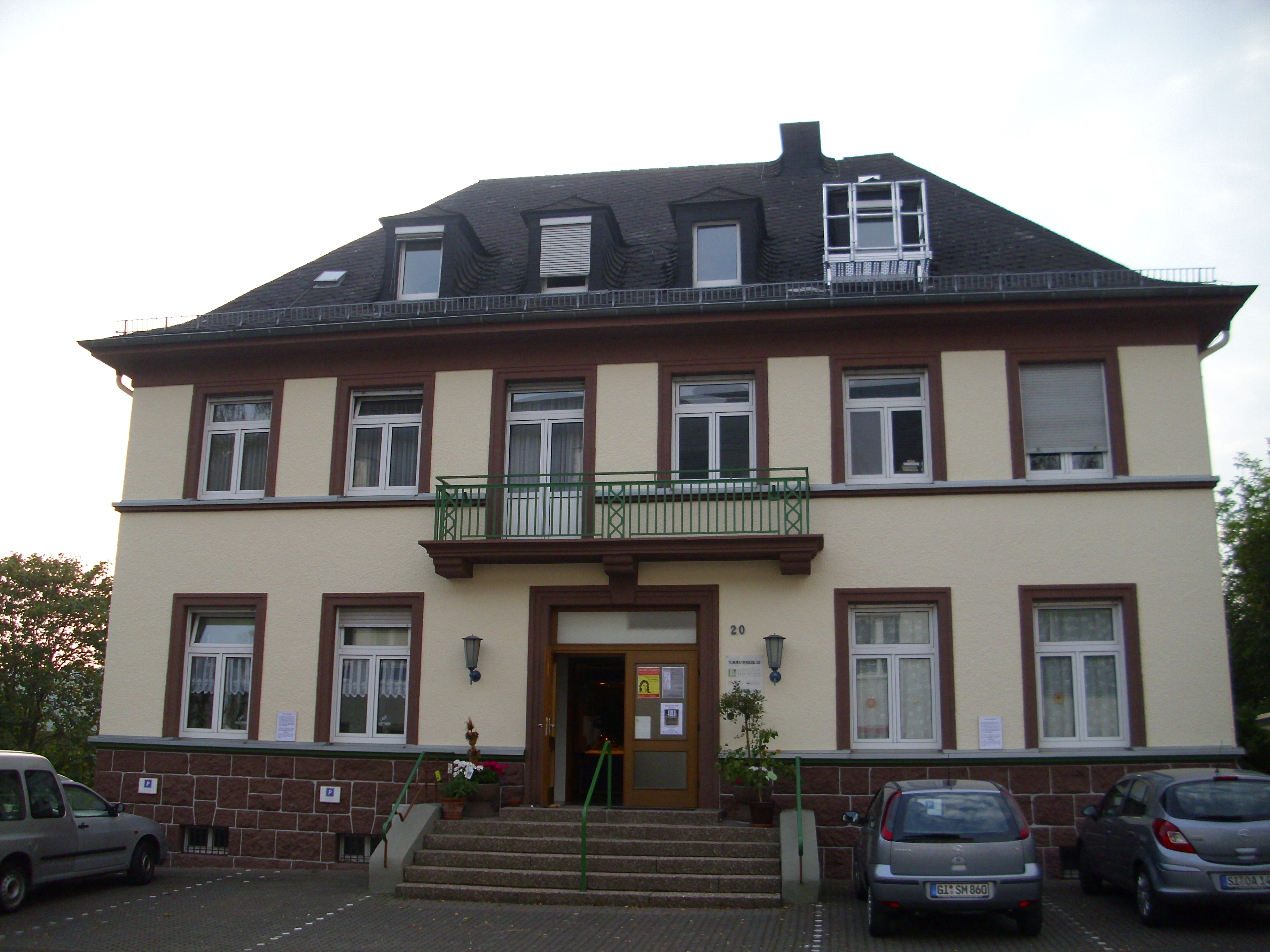 Library for phantastic literature, Wetzlar, Germany check usage